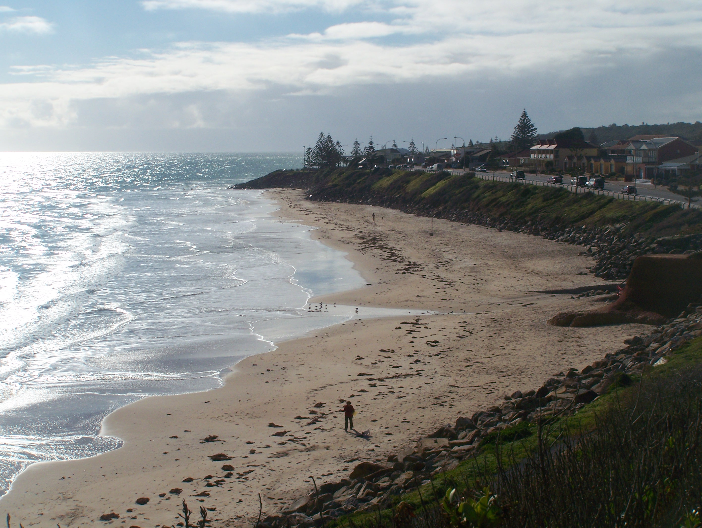 This is a picture form the Witton Bluff overlooking the coast of Christies Beach, SA